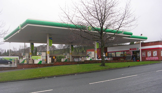 BP Filling Station - Haworth Road